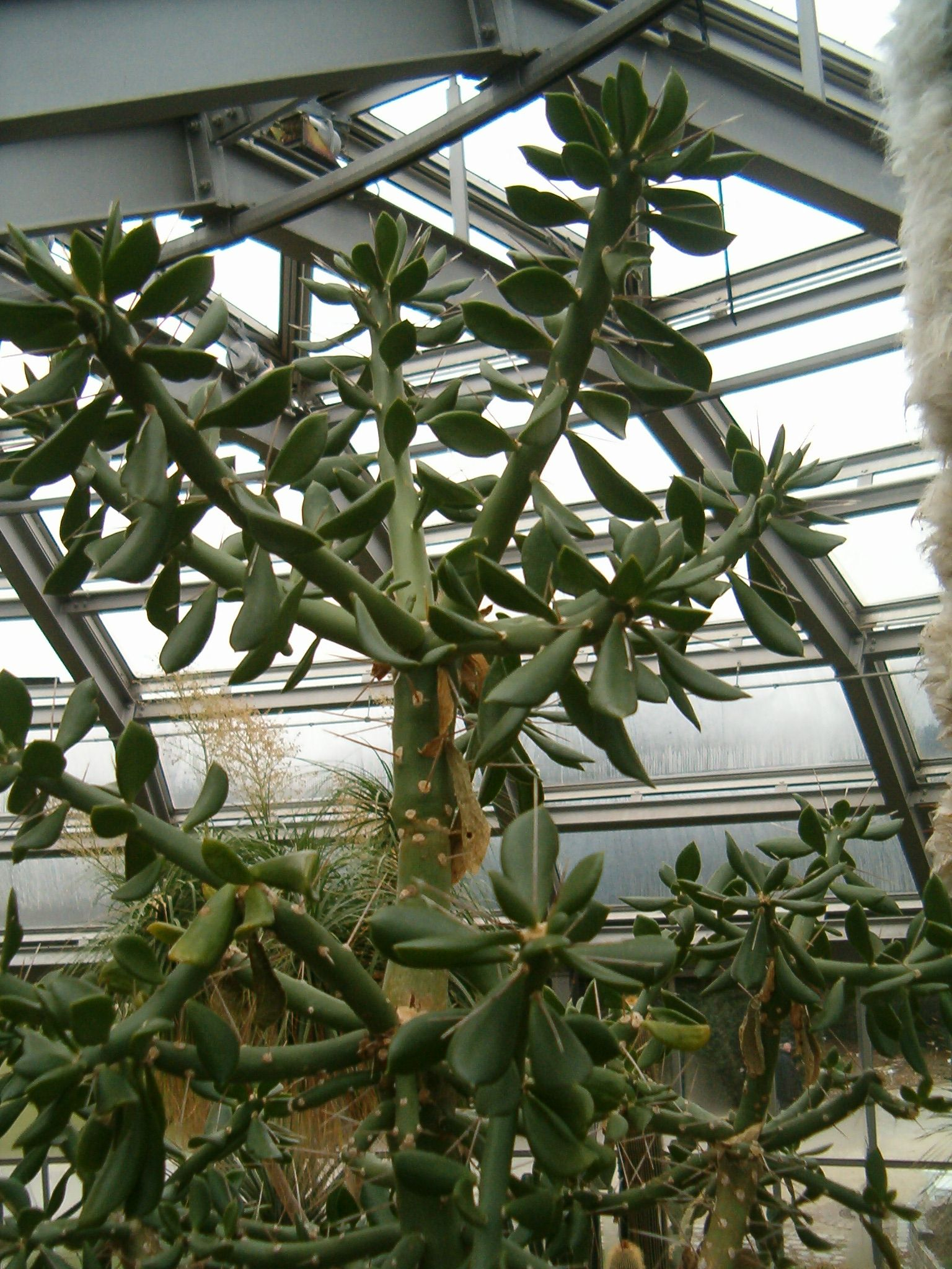 Location: Botanical Gardens Berlin Dahlem